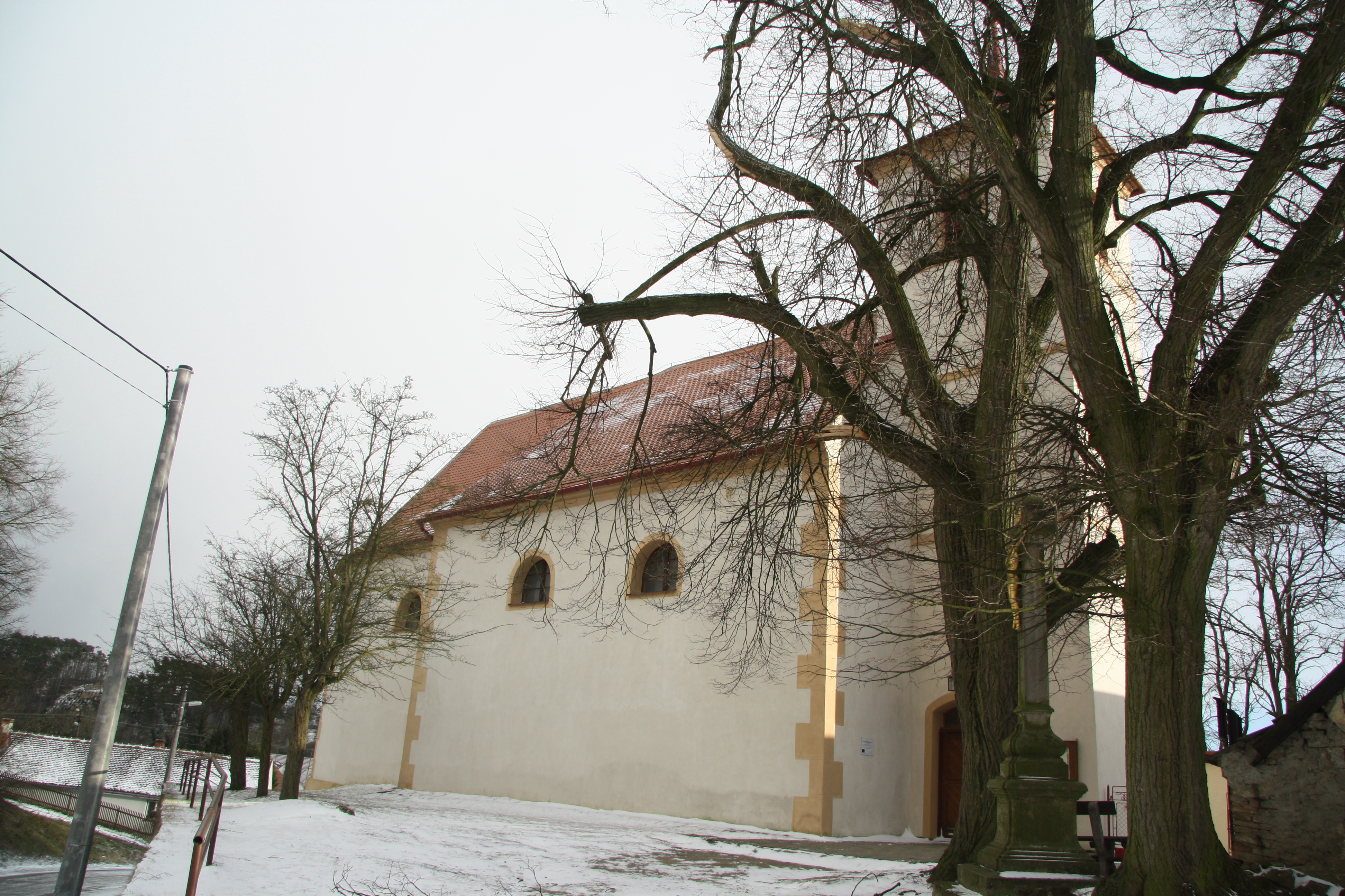 Overview of Church of Saint Martin in Biskupice in 2015, Biskupice-Pulkov, Třebíč District.